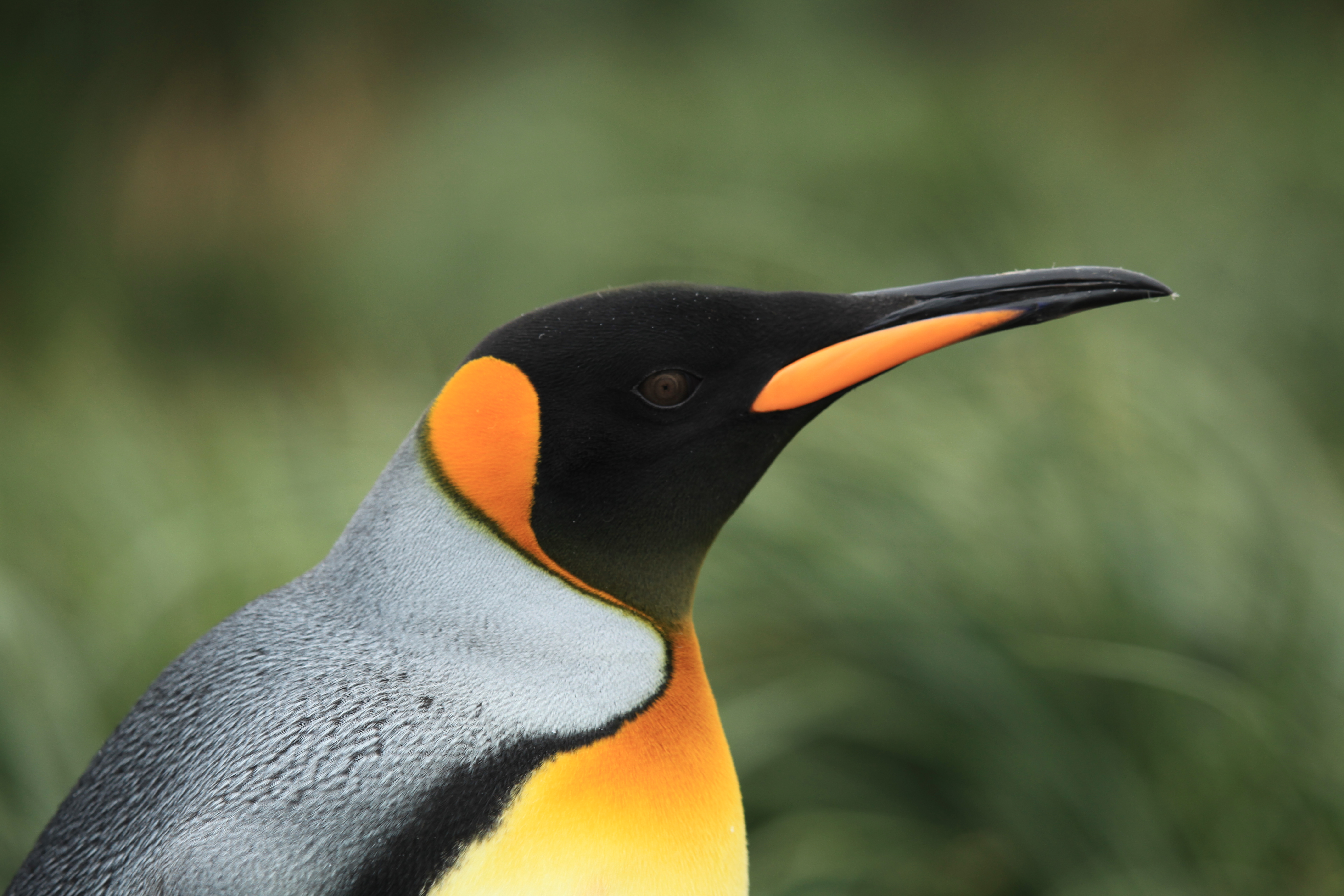 A King Penguin at Salisbury Plain, South Georgia, British Overseas Territories, UK.